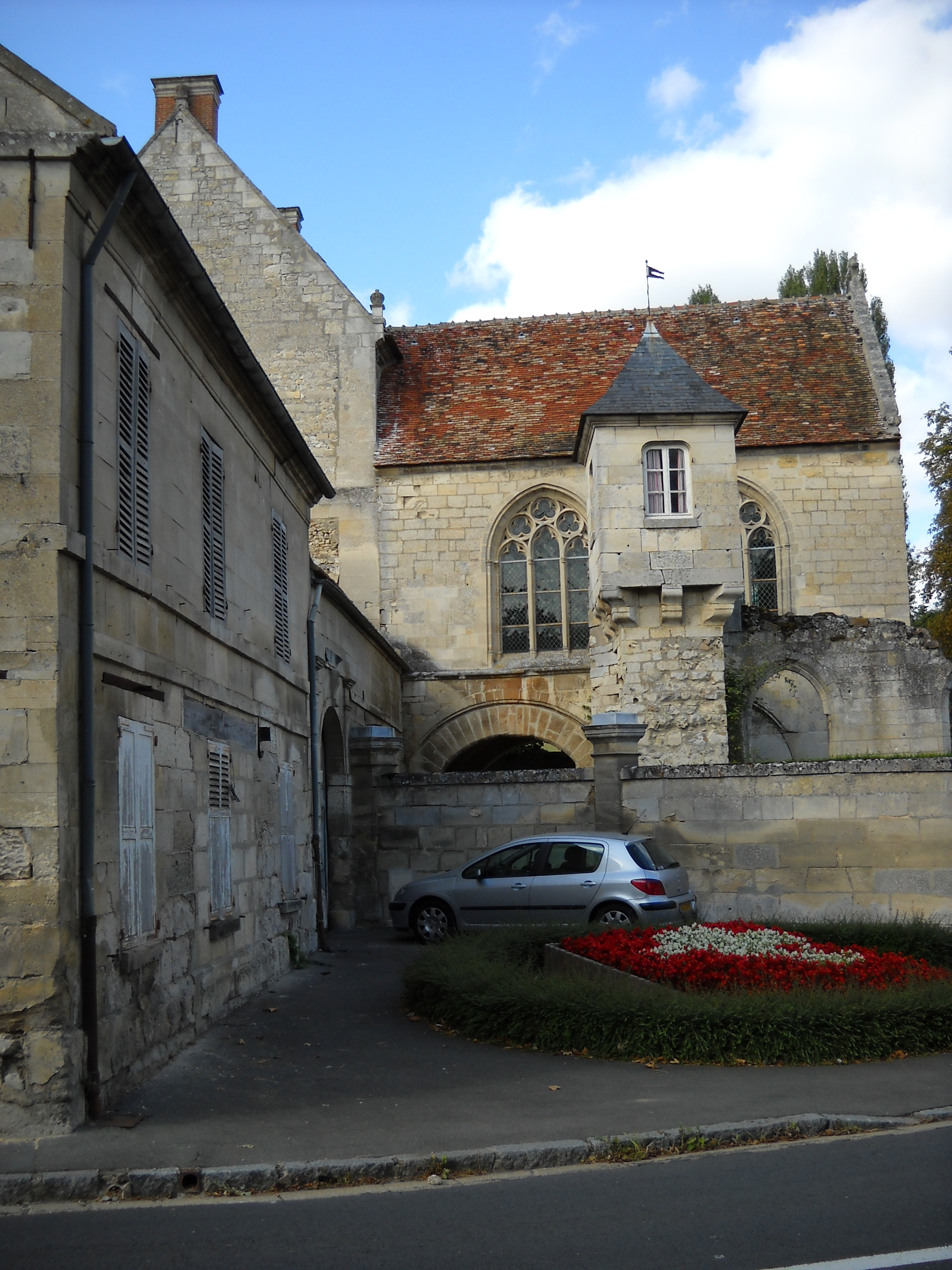 The commandry of Neuilly-sous-Clermont, Oise, France.